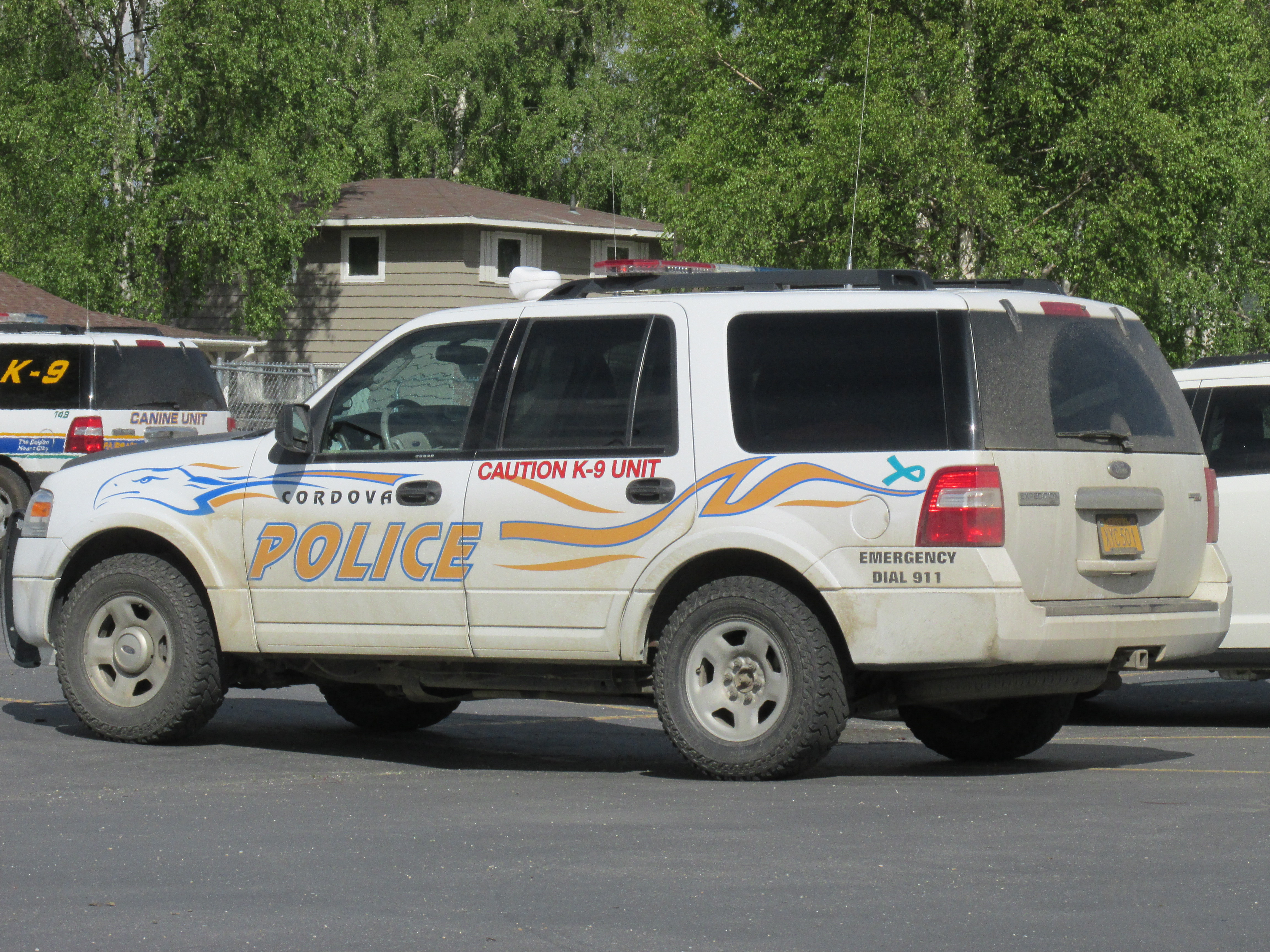 Police vehicle of the K-9 unit of the Cordova Police Department, Cordova, Alaska, photographed in the parking lot of a church in Fairbanks, Alaska. A Fairbanks Police Department K-9 unit vehicle can be seen in the background.